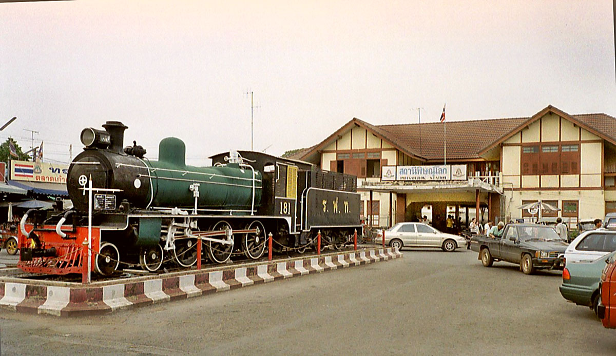 Railwaystation of Phitsanulok, Thailand (built around 1920 by German architect Karl Siegfried Döring)